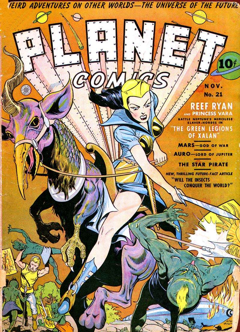 Cover of the comic book Planet Comics #21 (1942) featuring The Green Legions of Xalan